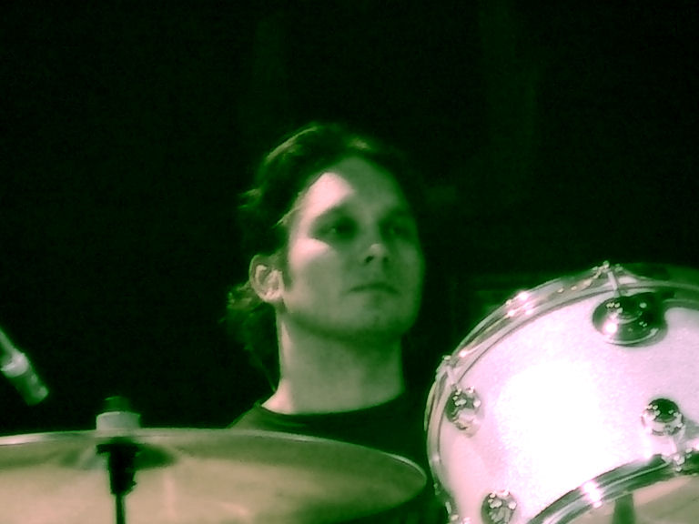 Jonny Quinn, Copenhagen 2006